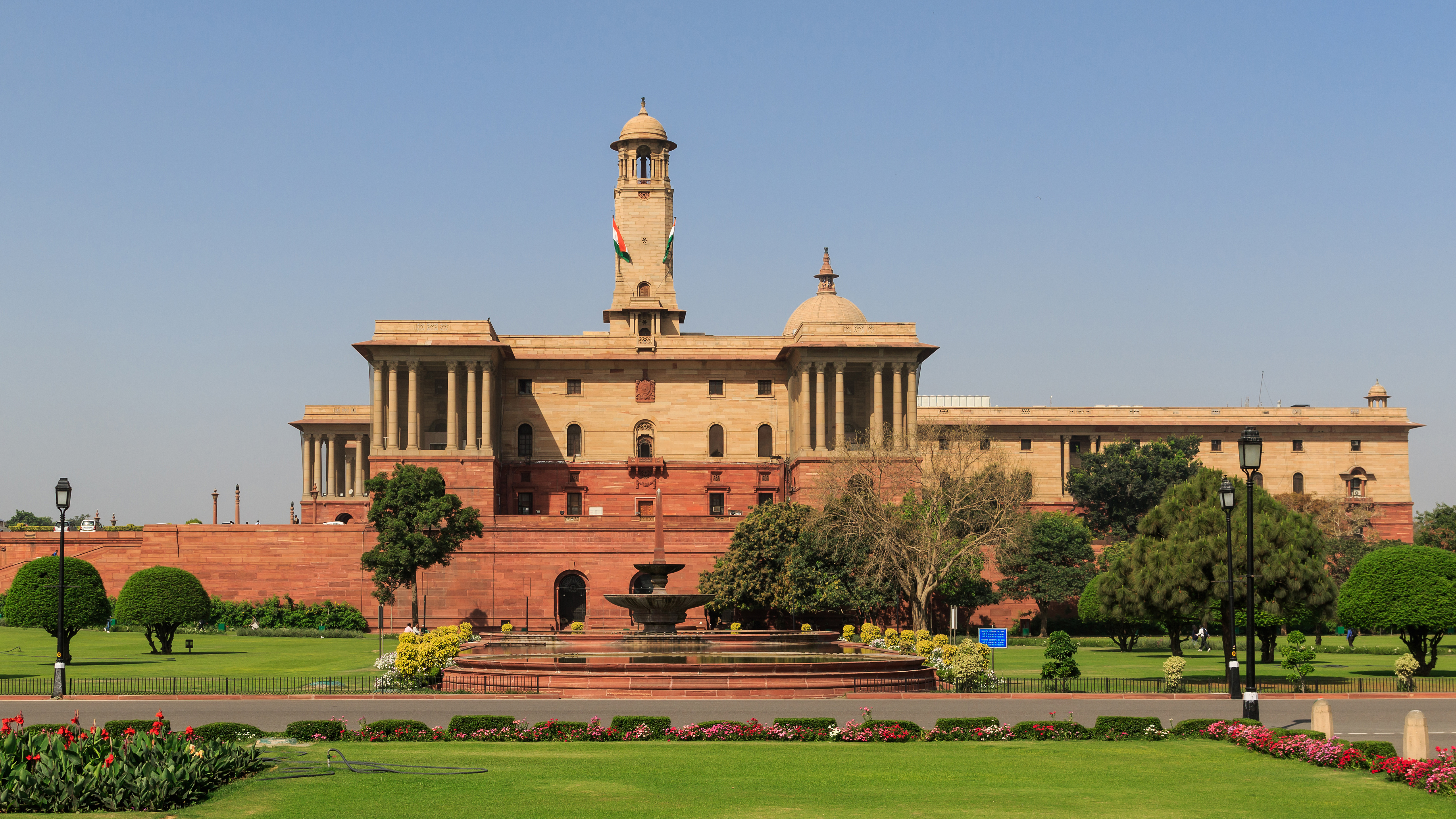 Ensemble of Government buildings on Rajpath in New Delhi, India